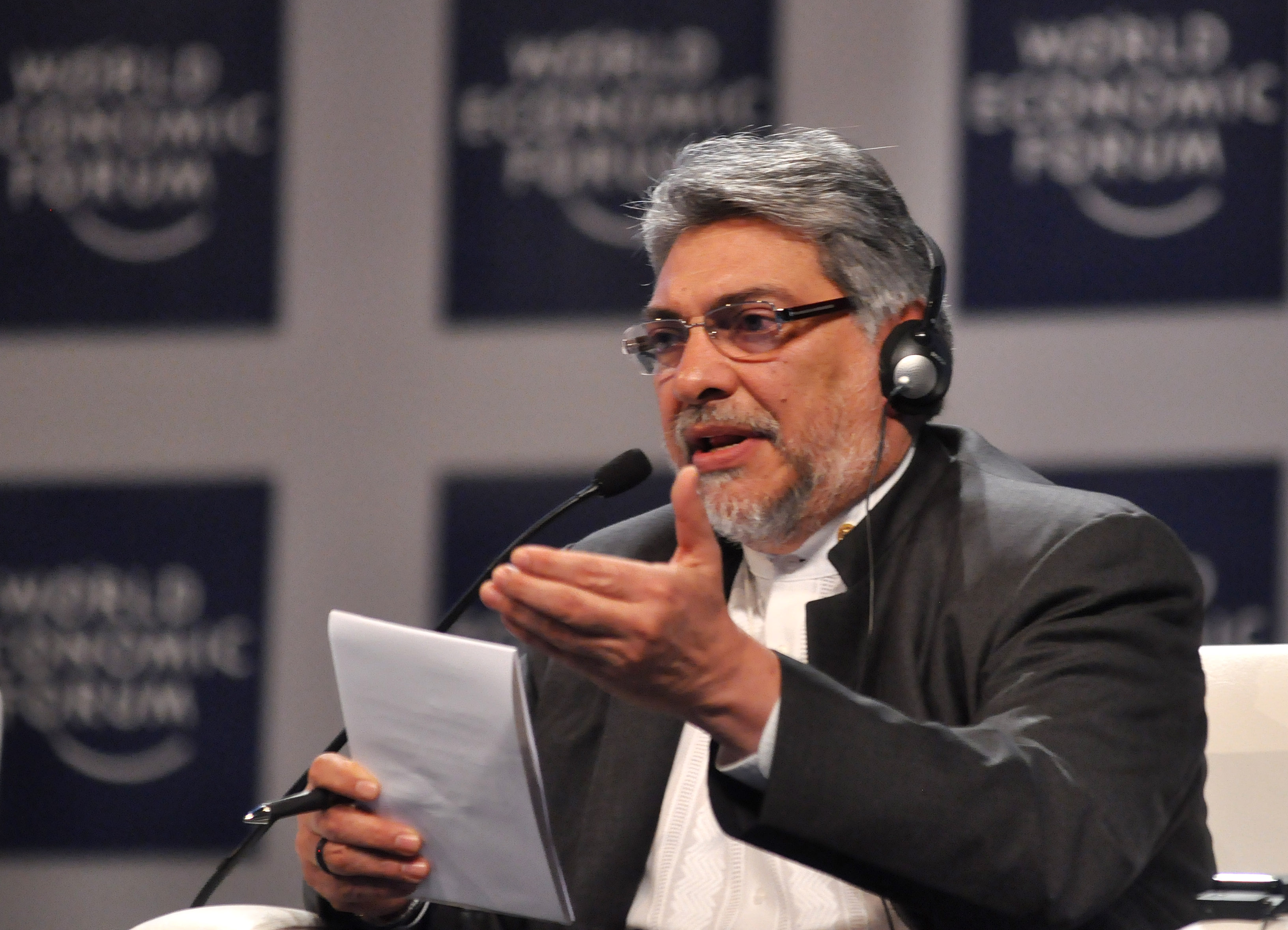 Fernando Lugo in the Presidents Plenary at the World Economic Forum